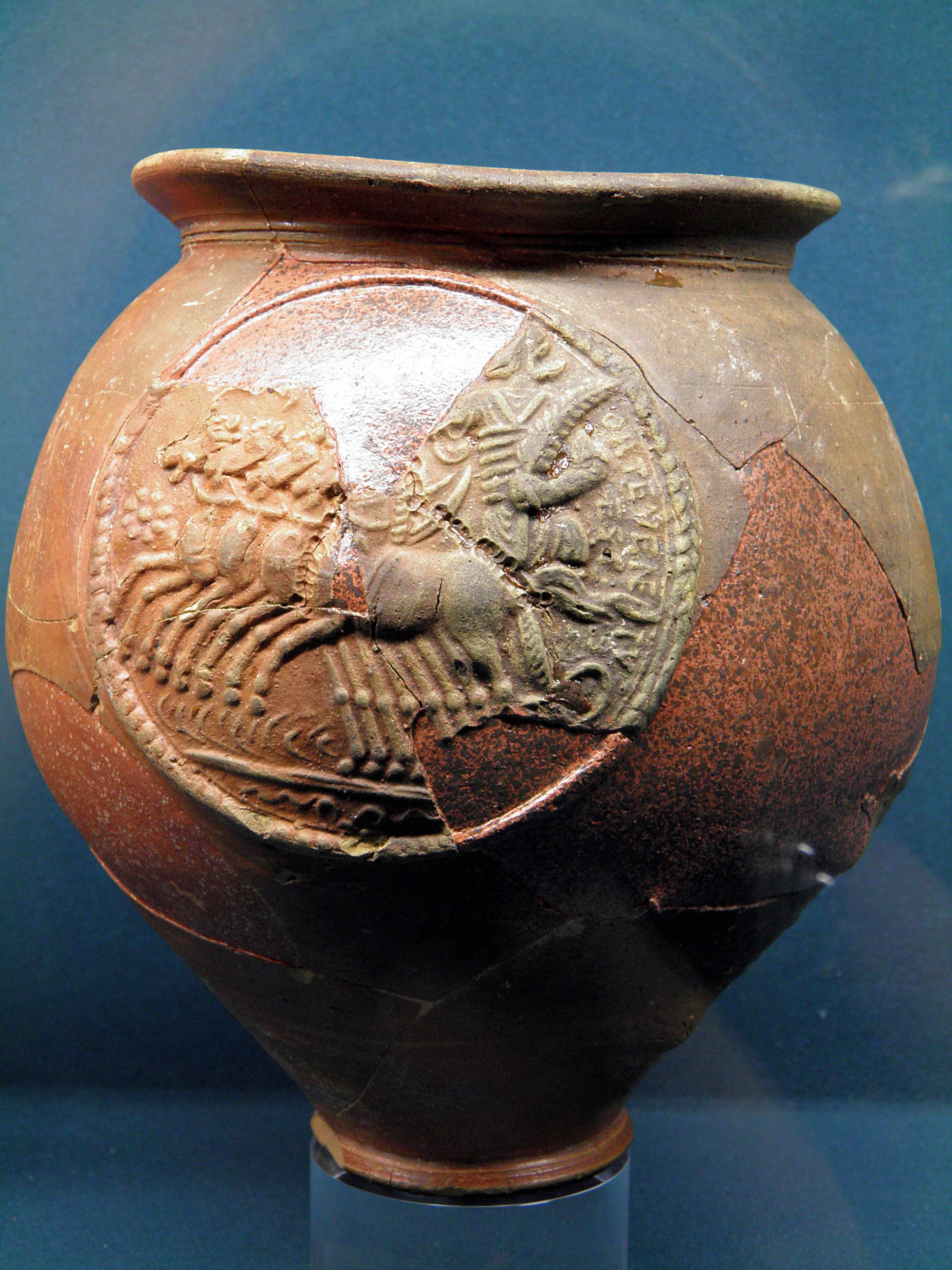 Terracotta jar with medallion depicting a charioteer in his quadriga, holding the victor’s crown and palm branch, Rhône valley ware, Musée gallo-romain de Fourvière, Lyon